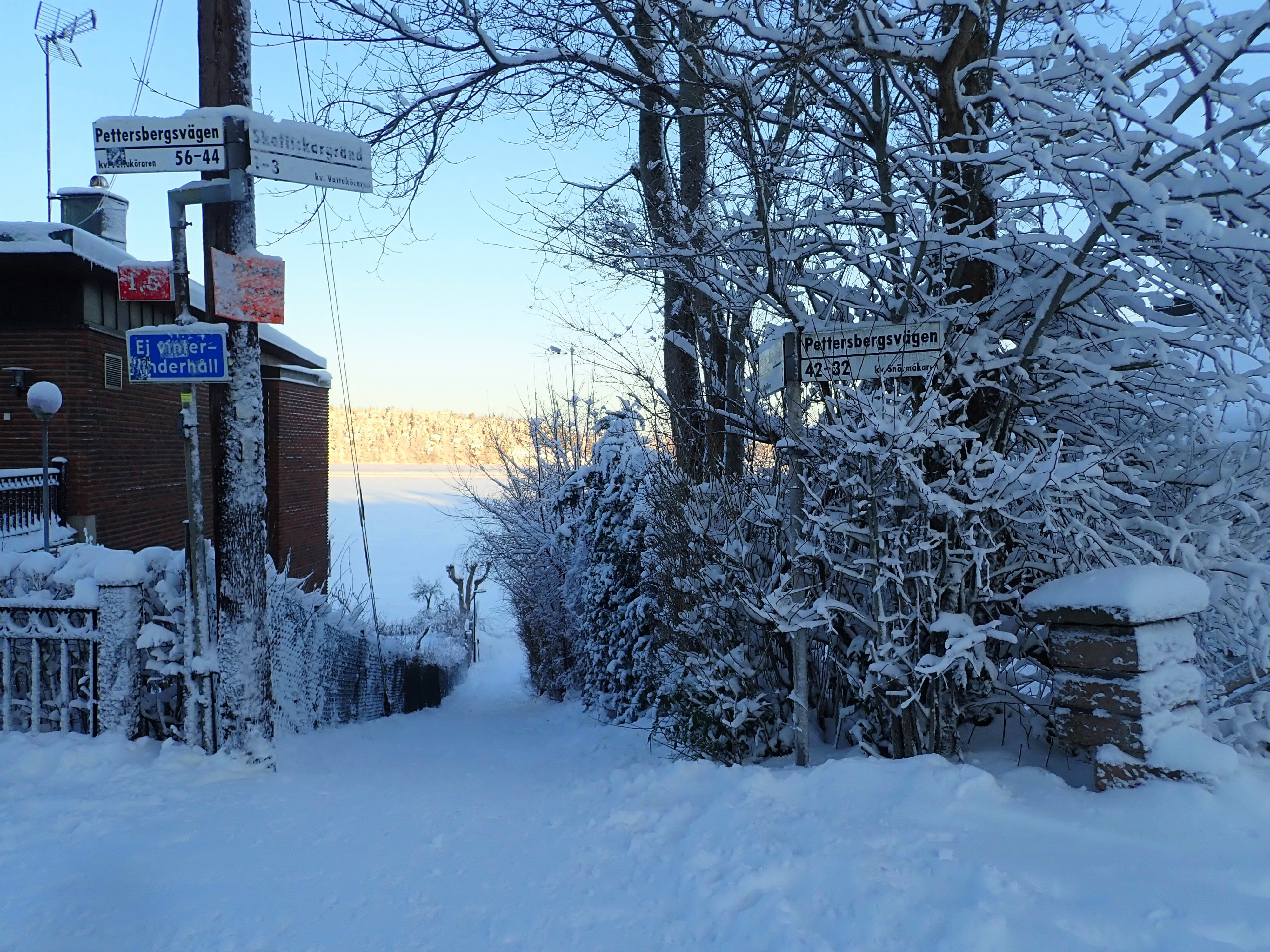 Skoflickargränd in Mälarhöjden, Sweden, an alley from Pettersbergsvägen down to the lake Mälaren, 4 February 2019